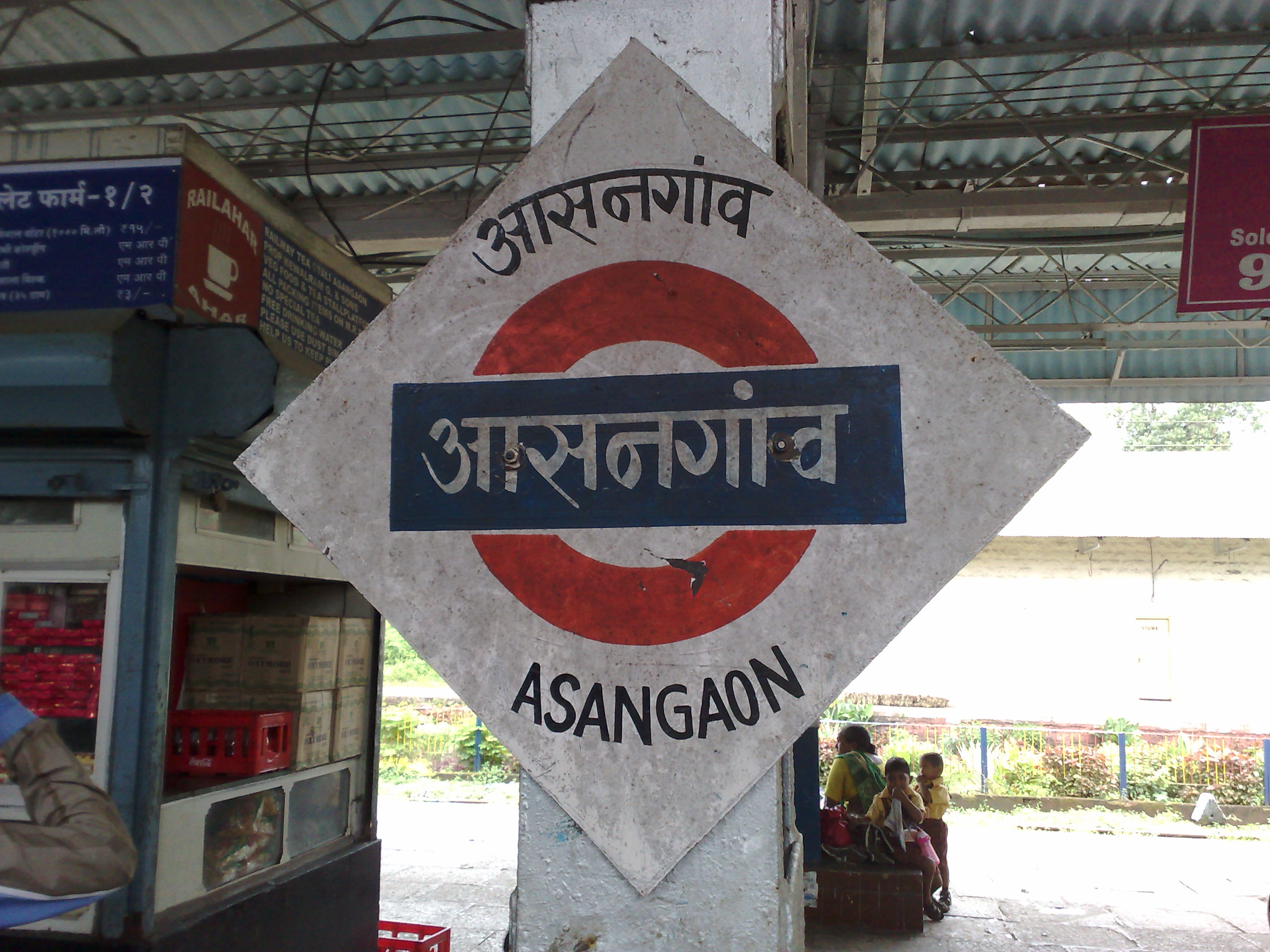 Asangaon railway station - Platformboard